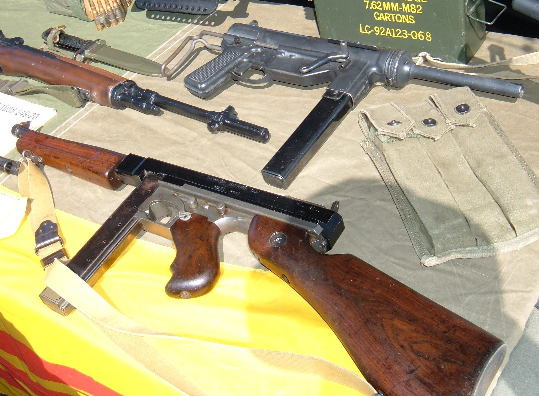 M3 grease gun (top) and M1A1 Thompson submachine gun at the Wings over Wine Country 2007 air show at the Charles M. Schulz - Sonoma County Airport in Sonoma County, California.